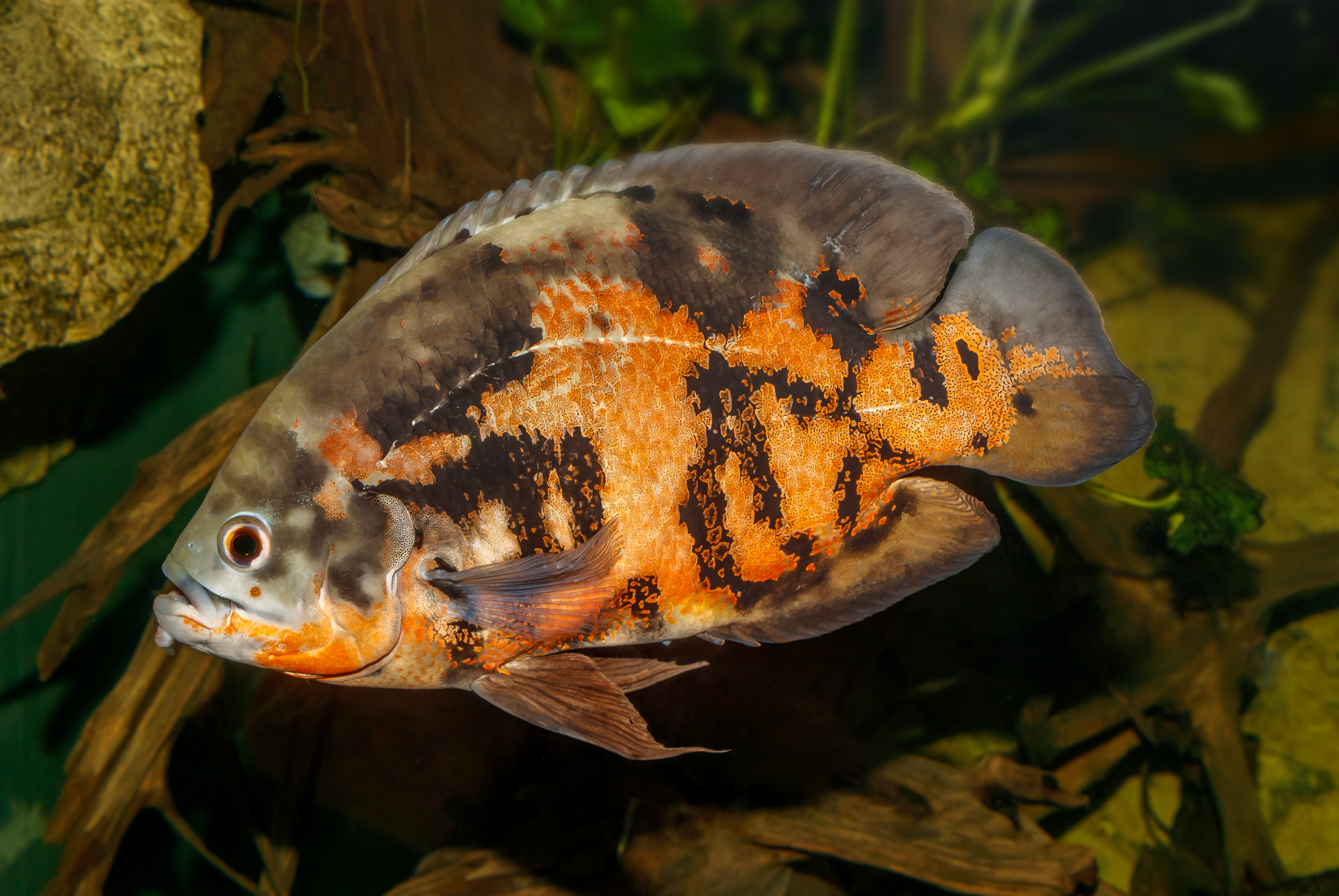 Astronotus ocellatus (Agassiz, 1831), Oscar; Karlsruhe Zoo, Karlsruhe, Germany.